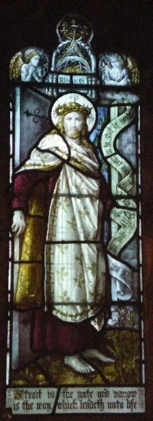 Christ Church, Lancaster, Stained glass window